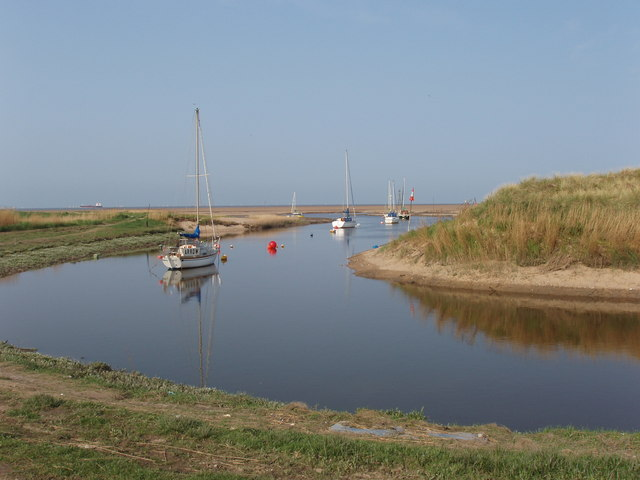 Yachts moored in the River Alt The web pages for Blundellsands Sailing Club which operates from here describe it as "a muddy tributary of the River Mersey with a somewhat tortuous entrance".